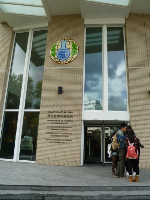 The Hague (the Netherlands) Organisation of the Prohibition of Chemical Weapons